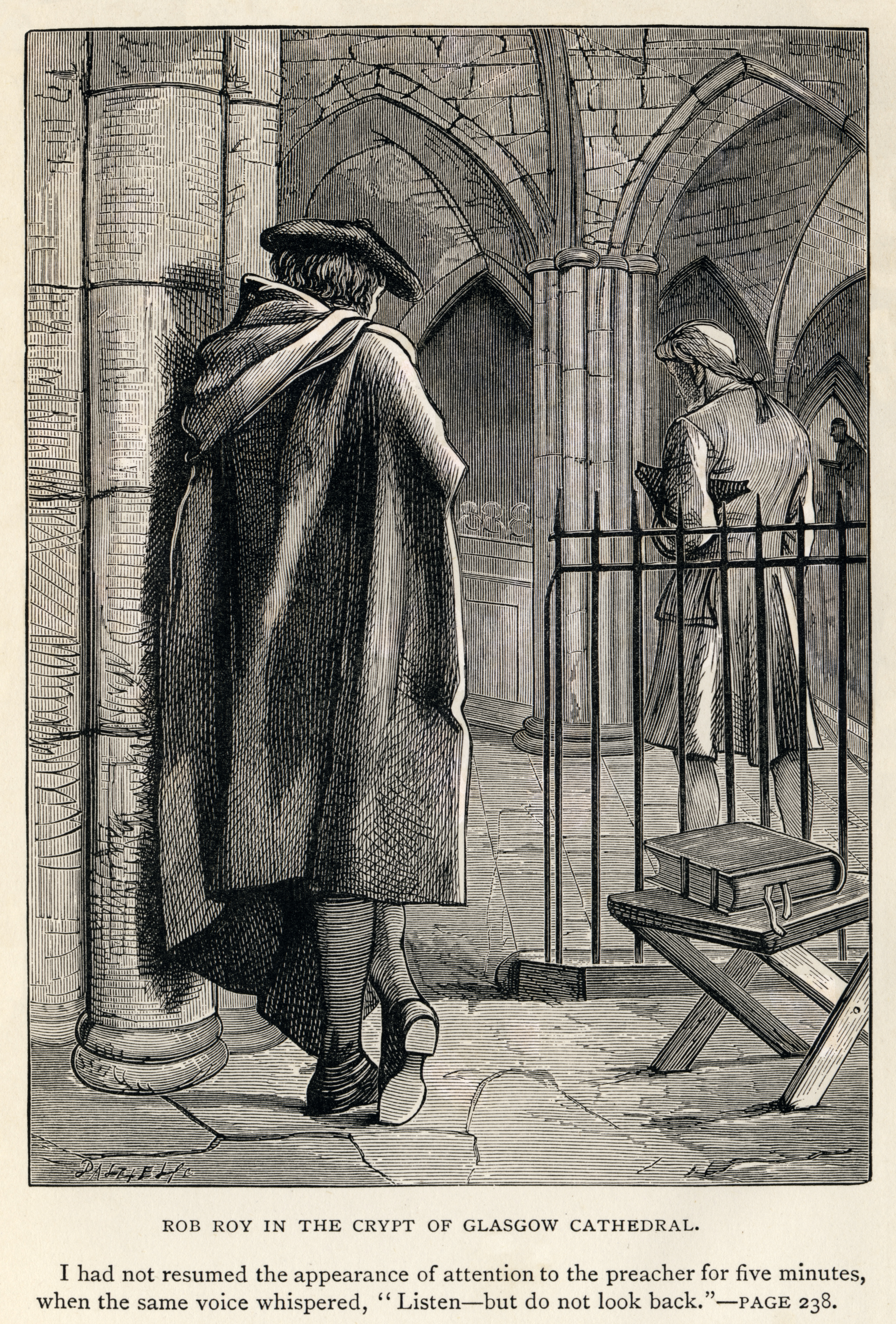 "Rob Roy in the Crypt of Glasgow Cathedral", by the Dalziel Brothers, after Sir Walter Scott's Rob Roy. "Crypt" is not quite the right word - the area where this is found is properly known as the Lower Church.